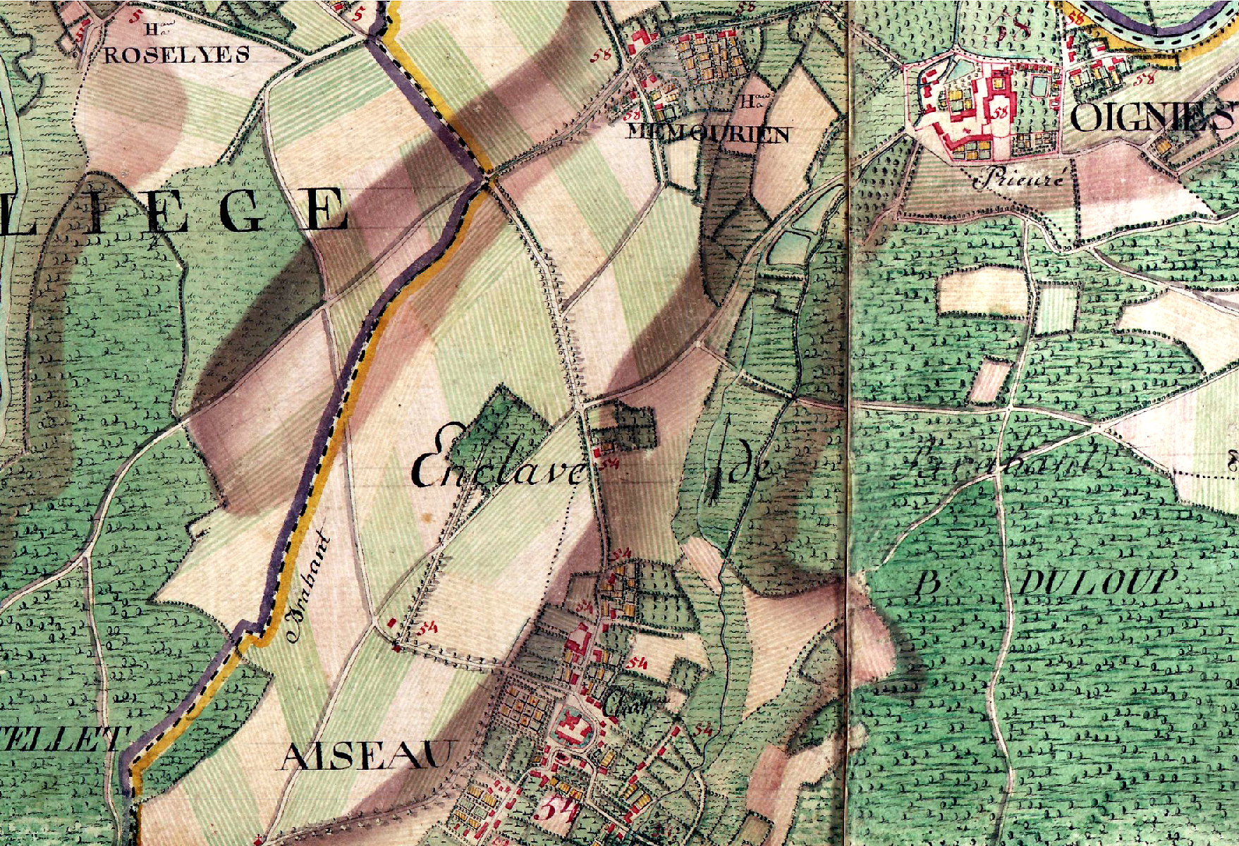 Aiseau,Menonry,Oignies,Roselies, carte éditée en 1777